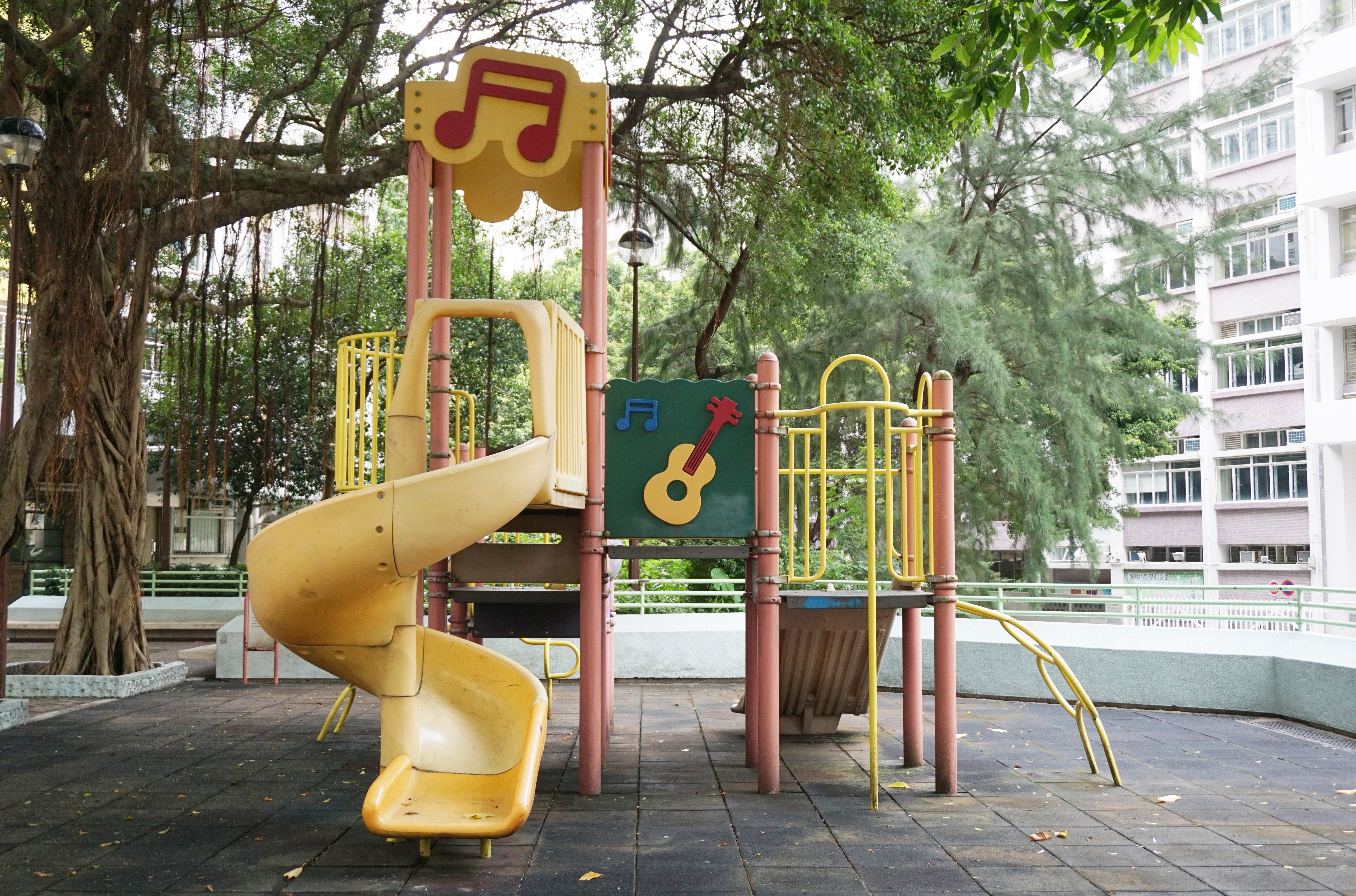 Lei Tung Estate in Ap Lei Chau, Hong Kong.